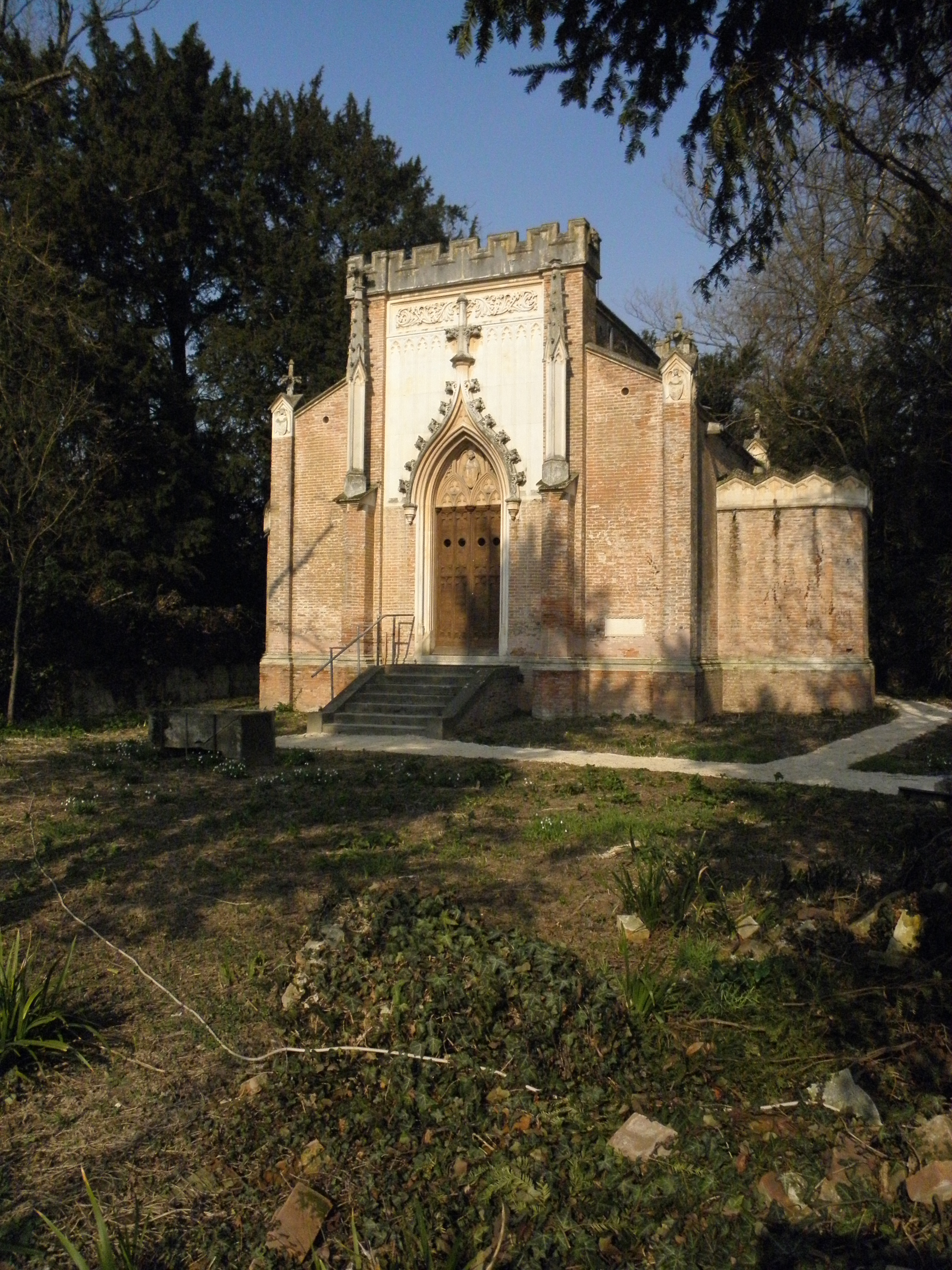 Vescovana: cappella funeraria di Villa Pisani, opera dell'architetto padovano Pietro Selvatico, edificata nel 1860.